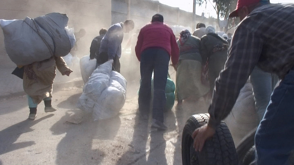 CIEN METROS MÁS ALLÁ •Documental 2008 •Dir. Juan Luis de No •Exec. Prod. Stéphane M. Grueso •elegant mob films / Odisea / TVE •1 x 66' / 56' / color / stereo •HD - HDCAM Alrededores de Melilla, una pequeña porción de Europa dentro del continente africano, frontera terrestre entre Europa y África. Miles de personas sobreviven del contrabando y esperan una oportunidad para mejorar su existencia. Mientras tanto la economía global avanza inexorablemente sin tener en cuenta sus pequeñas vidas. Más info: ENGLISH --------------------------------------------------- ONE HUNDRED METERS AWAY •Documentary 2008 •Dir. Juan Luis de No •Exec. Prod. Stéphane M. Grueso •elegant mob films / Odisea / TVE •1 x 66' / 56' / color / stereo •HD - HDCAM The untold story of one of the world's hot spots where thousands of workers beast of burden in a struggle to survive. One hundred meters away takes place in Melilla, the terrestrial border between Africa and Europe; a portion of Europe wedged in the African continent, where mobs gather to fight for the scraps of a booming business: smuggling, while waiting for a chance to better their lives. Meanwhile, the Global economy moves on inextricably oblivious of its influence over simple human beings.